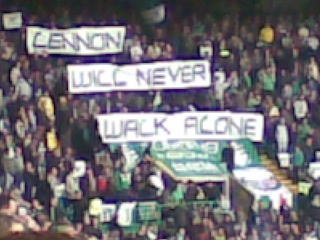 The Green Brigade with a banner saying Lennon will never walk alone